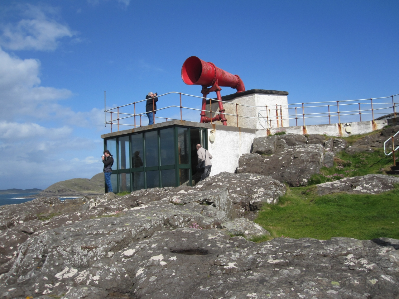 Fog horn at Ardnamurchan Lighthouse.